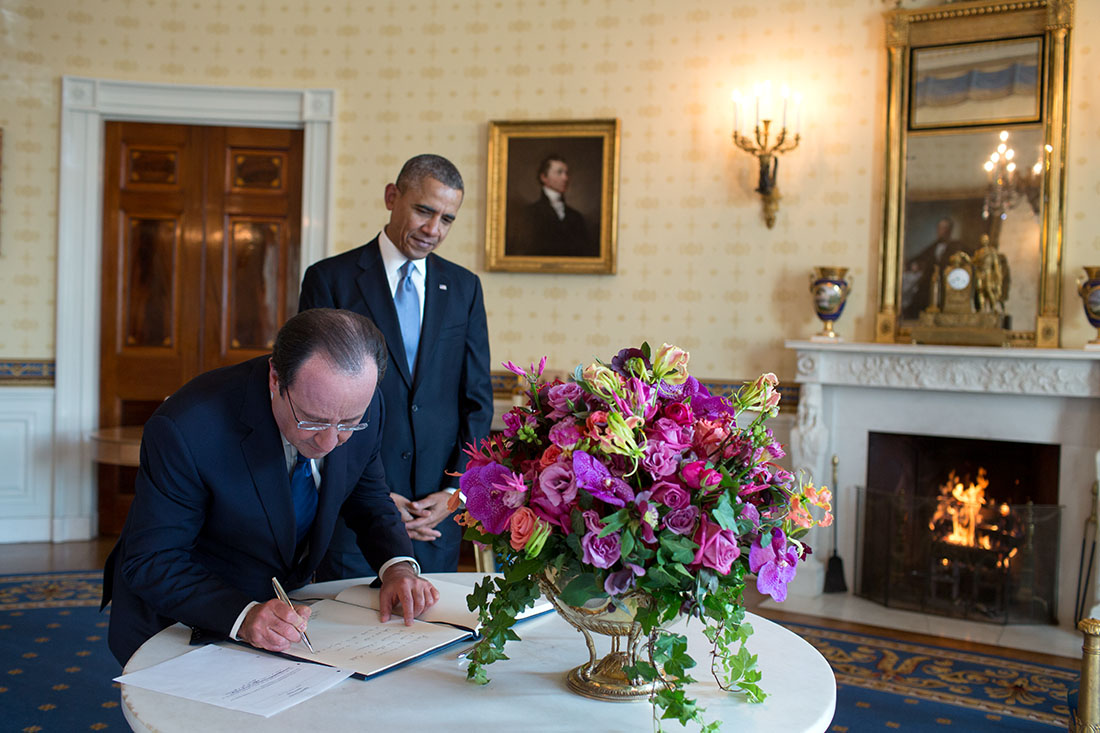 President Barack Obama watches as President François Hollande of France signs the guest book in the Blue Room of the White House, Feb. 11, 2014. (Official White House Photo by Pete Souza)